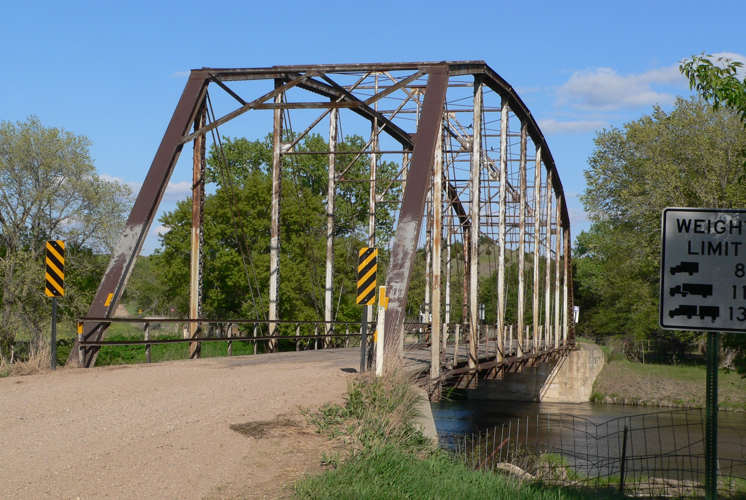 Gross State Aid Bridge, north of Verdigre in Knox County, Nebraska; seen from the southwest. The bridge carries county road 885 Rd across Verdigris Creek; in the picture, downstream is left. The pin-jointed Parker through truss bridge was built in 1918, and is listed in the National Register of Historic Places.